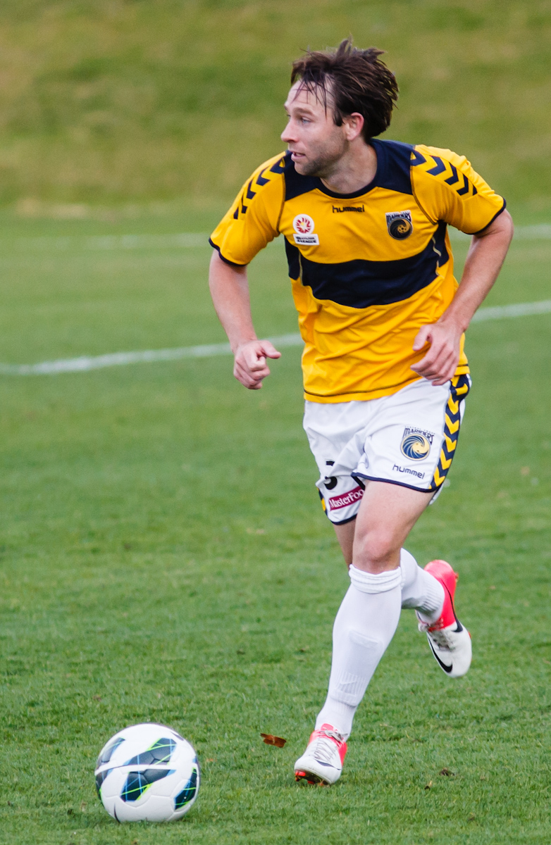 Joshua Rose playing in a pre-season game between the Central Coast Mariners and Melbourne Victory on 16/09/2012.